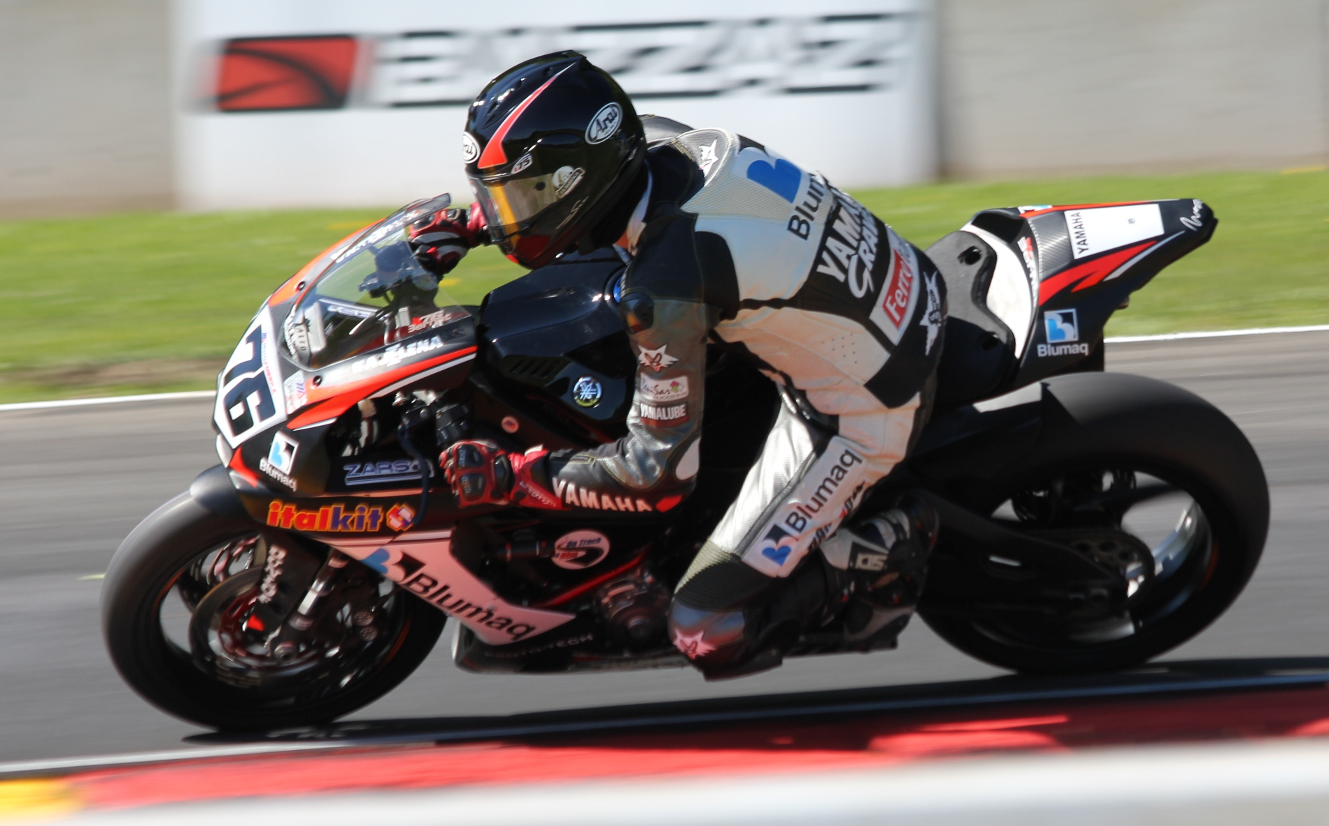 MotoAmerica AMA Superbike rider Bernat Martinez leaning left at Turn 6 at Road America.